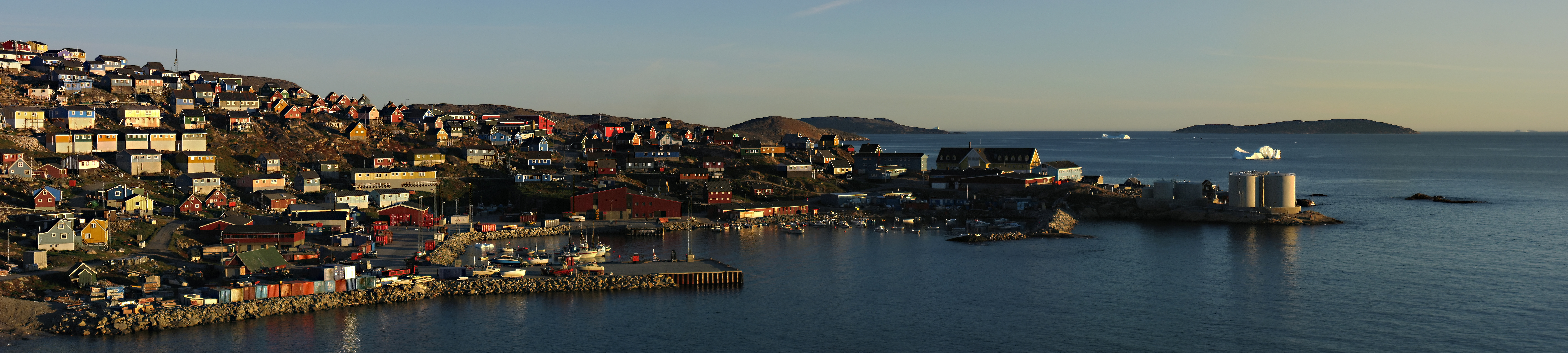 Midnight sun panorama of the north-western part of the town Upernavik in Greenland. The viewpoint is a cliff near the soccer field with a south-western heading and was taken at 11:45 pm on August 8, 2007. The image has been generated using the following steps 2x10 images taken at max zoom with a Canon DIGITAL IXUS 800 IS compact camera. 5. Saved in superfine jpeg resolution. The images are thereafter stitched using Hugin ver. 0.7 beta 5 with the following settings 1042 control points Projection: Rectlinear Optimize: Everything Exposure preset: LDR, variable white balance Stitcher: Soft blending, TIFF, deflate The generated TIFF file is hereafter cropped in GIMP ver. 2.2.16 og exported to JPG at a quality of 100%.